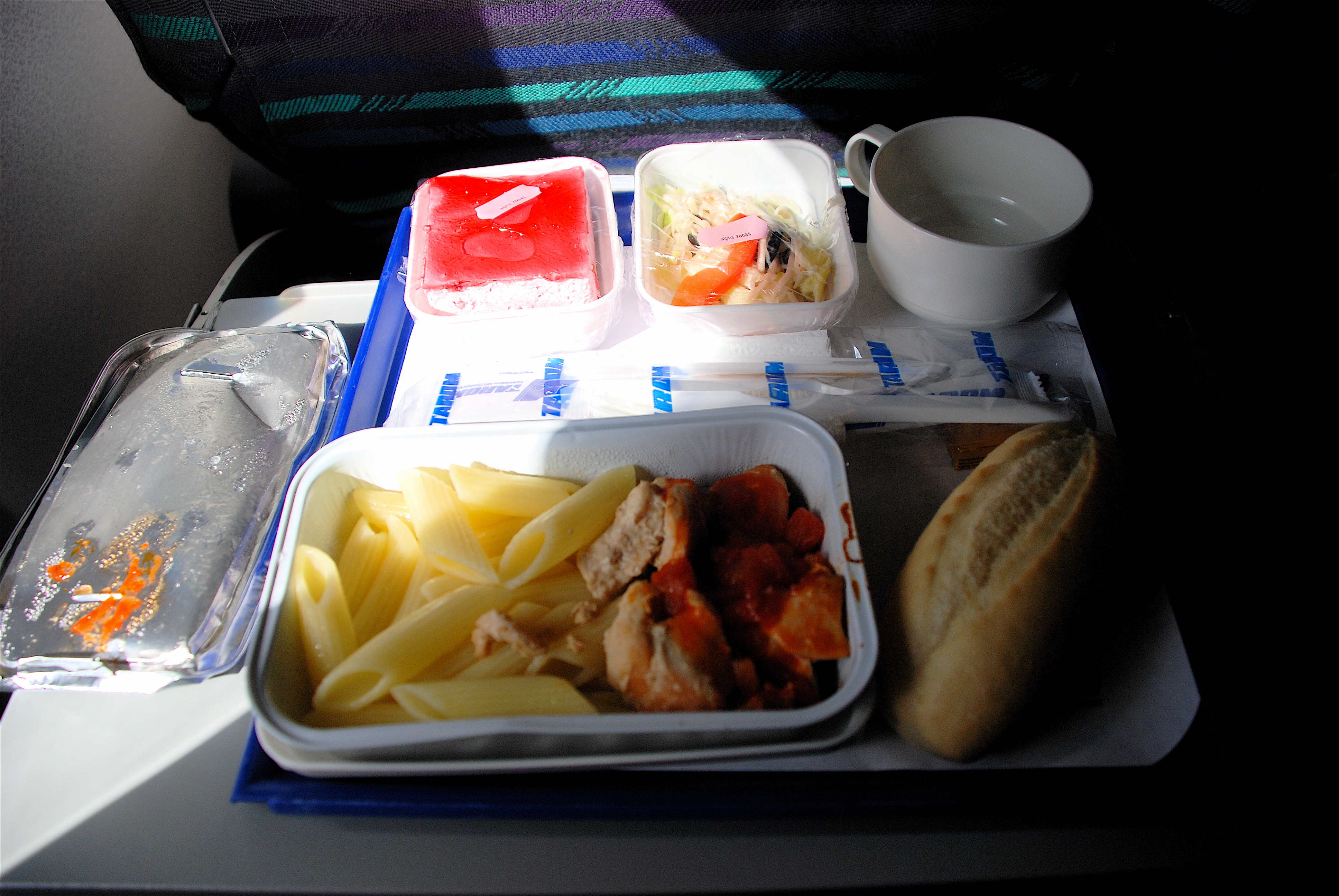 A full meal in Economy on an ordinary intra-European flight...Chicken with tomato sauce, pasta...